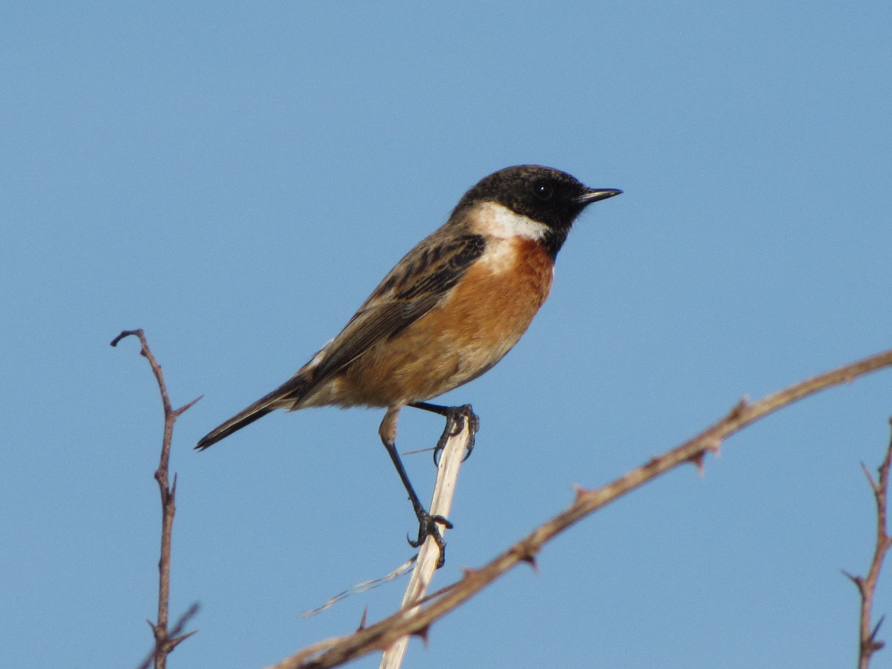 European Stonechat perched on a branch in Doolin, Ireland